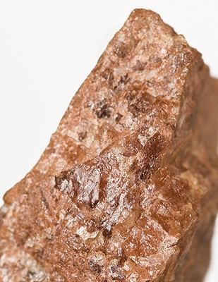 Natrophilite, Lithiophilite Locality: Abija N. Fillow Quarry (Branchville Quarry), Branchville, Redding, Fairfield County, Connecticut, USA (Locality at ) Size: 3.7 x 2.2 x 1.9 cm. A rare phosphate, from the type locality circa late 1800s. The natrophilite appears on the back of the specimen (see closeup view). Ex. G.J. Brush collection at Yale, so this was considered an important enough representative example that the Academy had to trade for it, to get the species. The presence of natrophilite as thin coatings and fracture fillings has been verified by Dr. Mark Feinglos. Further examination by Dr. Feinglos revealed the presence of lithiophilite and metaswitzerite, as well. Ex. Philadelphia Academy of Sciences Collection.